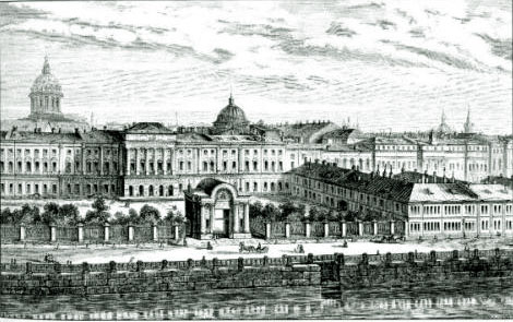 Razumovsky Palace in St Petersburg (1762-66), as it appears on a 19th-century engraving.